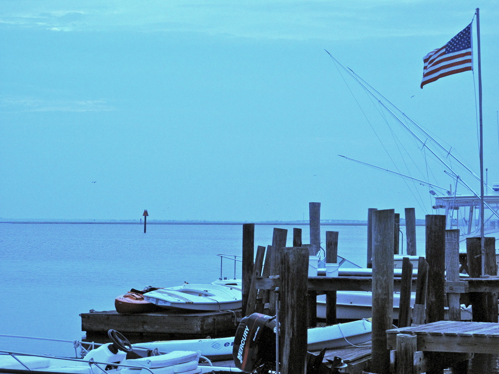 A few of Stone Harbor, New Jersey